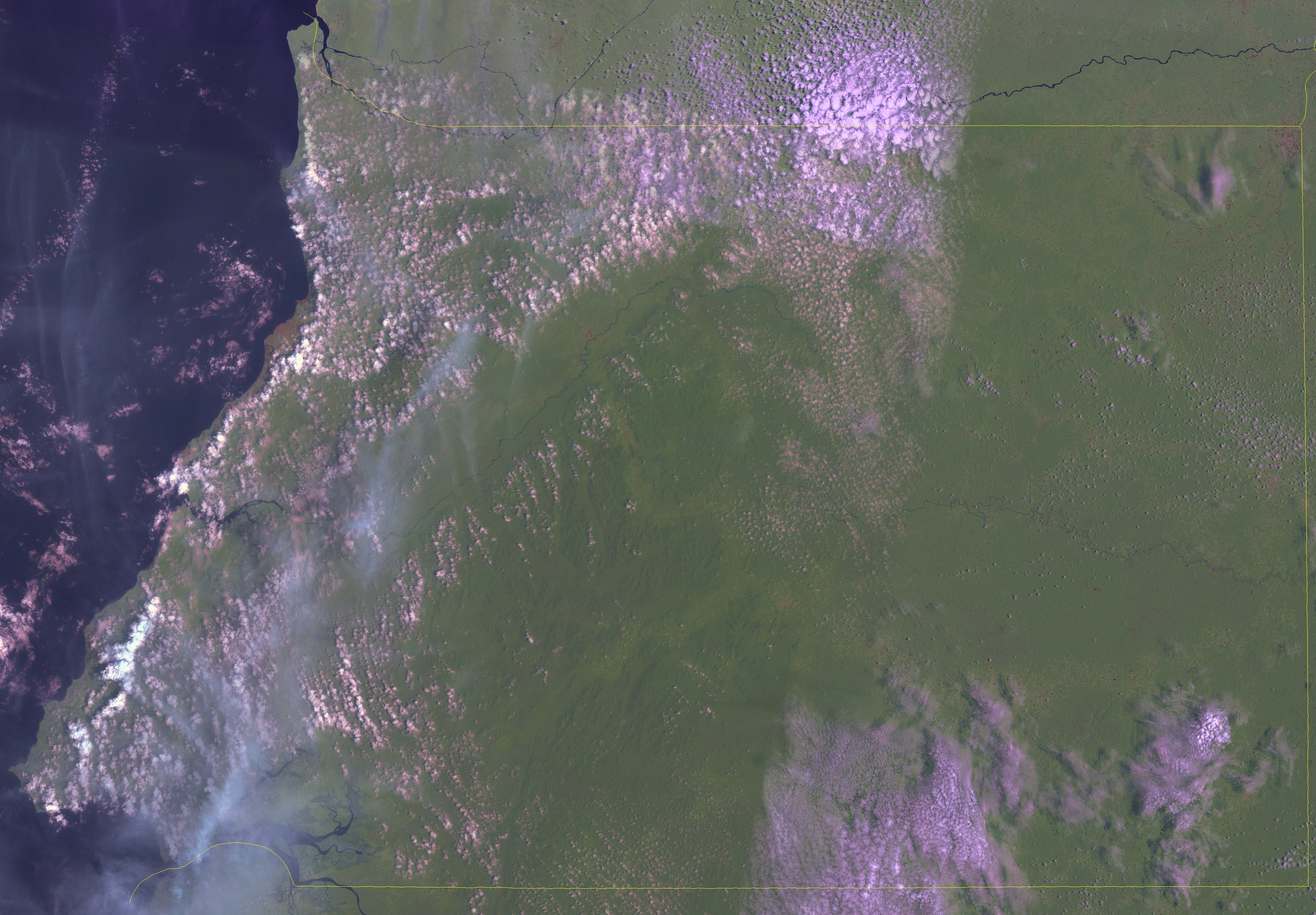 Satellite image of continental Equitorial Guinea.